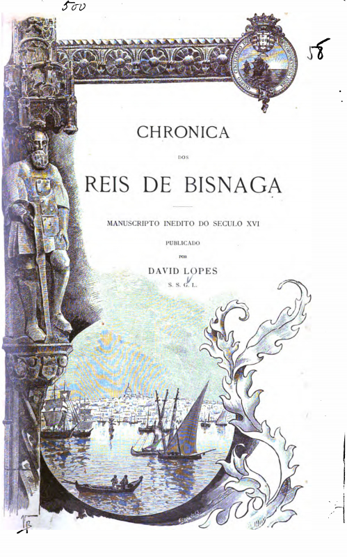 Cover for the first edition of Chronica dos Reis de Bisnaga, by David Lopes.